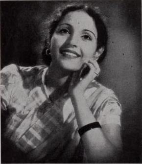 Shobhana Samarth in Shobha (1942)